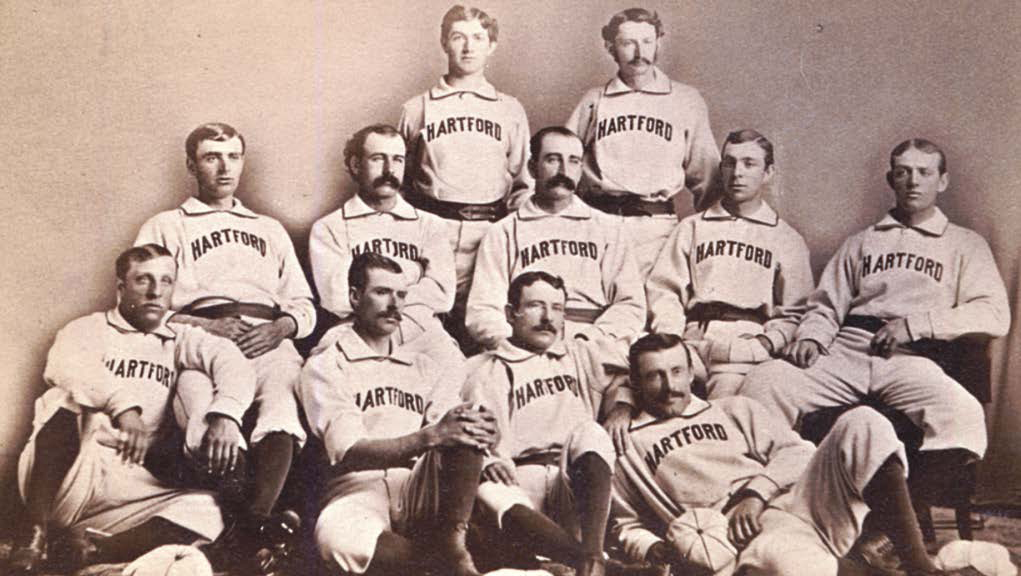 1876 Hartford Dark Blues baseball team Top row, L-R: Tommy Bond, Candy CummingsMiddle row, L-R: Tom Carey, Everett Mills, Bob Ferguson, Bill Harbridge, Tom YorkBottom row, L-R: Dick Higham, Jack Burdock, Jack Remsen, Doug Allison